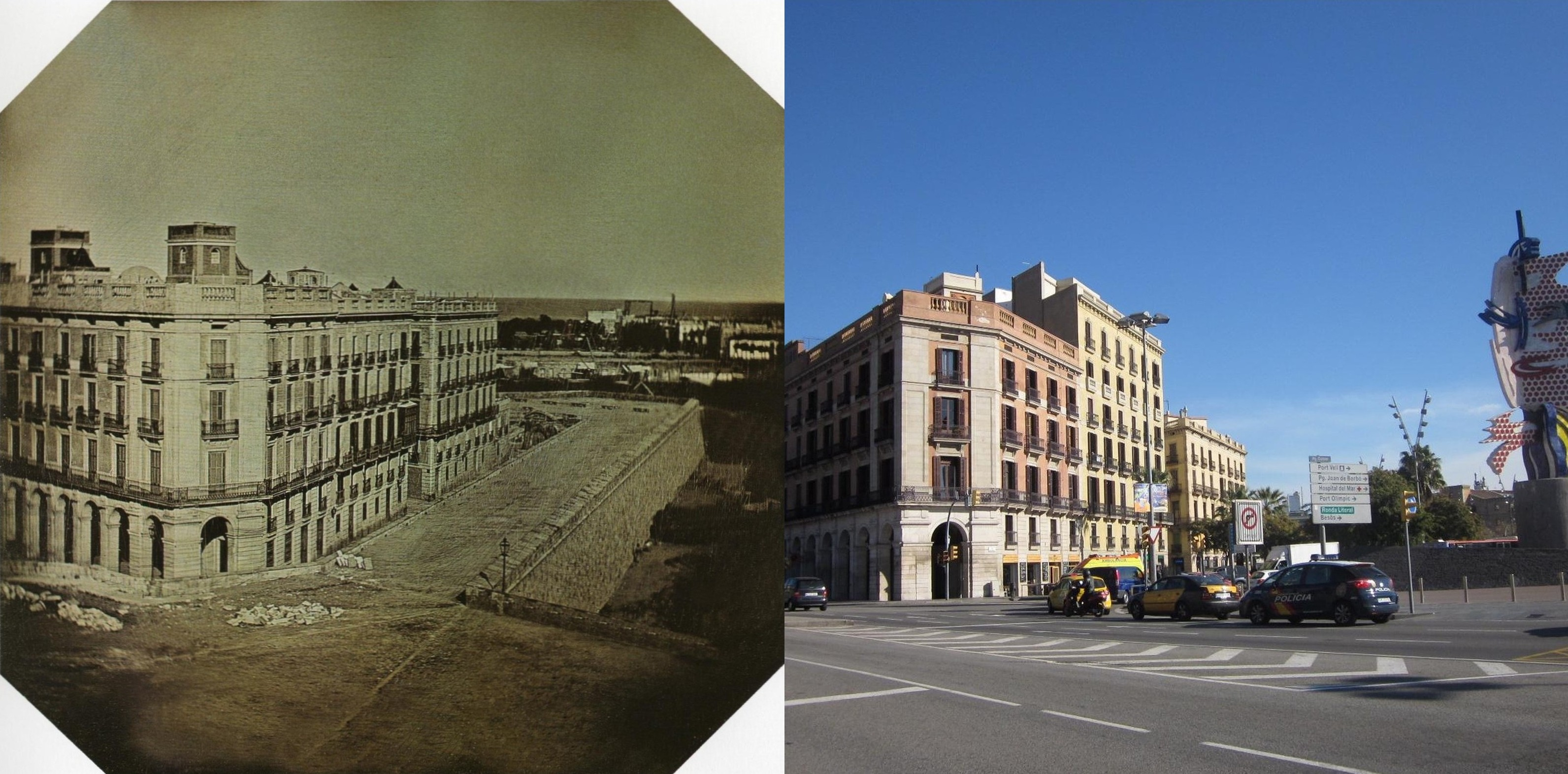 Comparison of the first daguererotype in Spain (1848) with the same view (different angle) in 2011